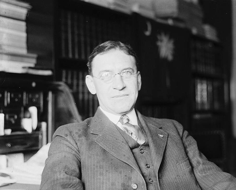 Representative Fred H. Dominick of South Carolina